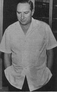 Argentine Metalworkers' labor union leader Augusto Vandor (1923 - 1969).